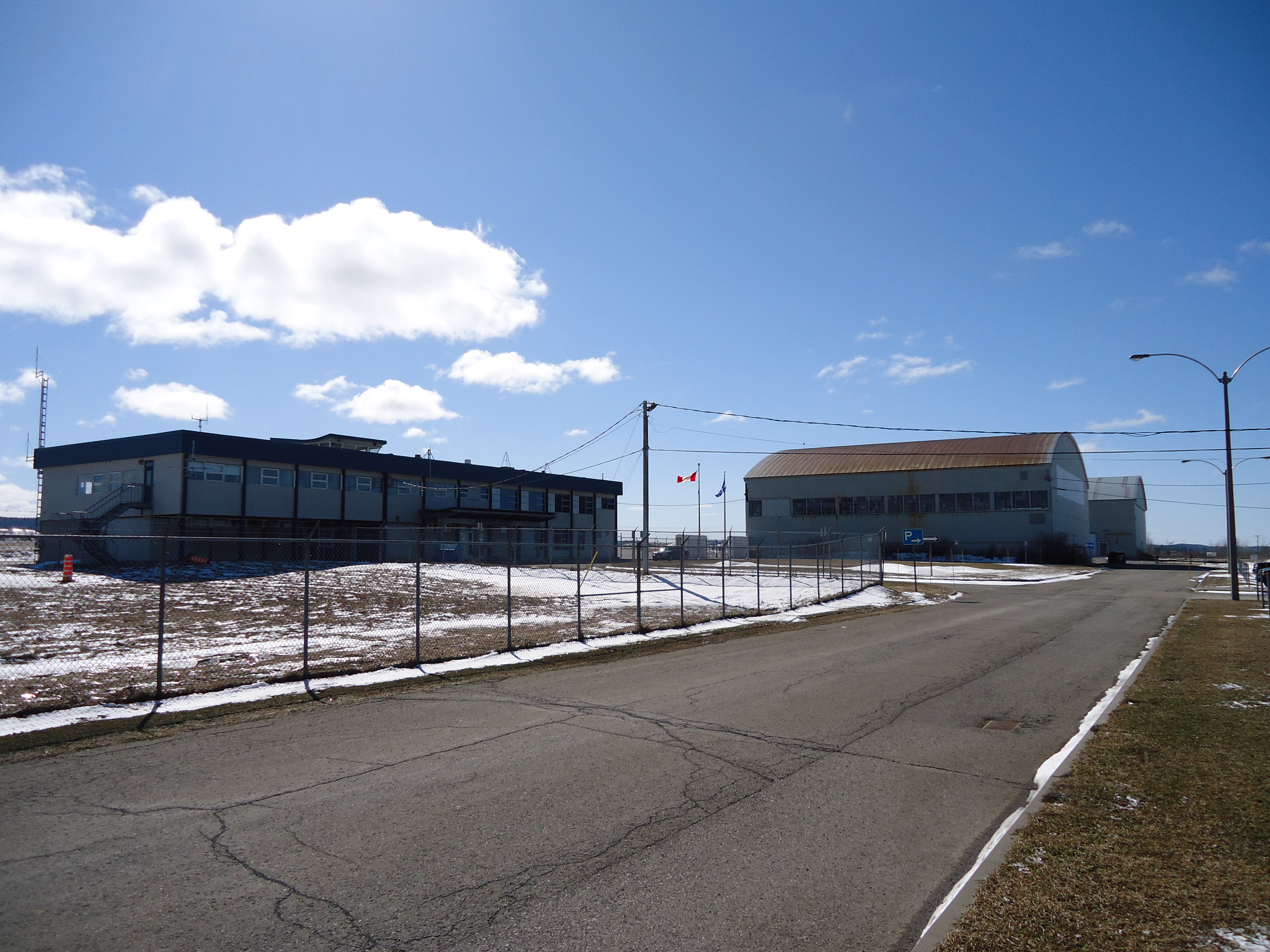 Rimouski airport and hangars.